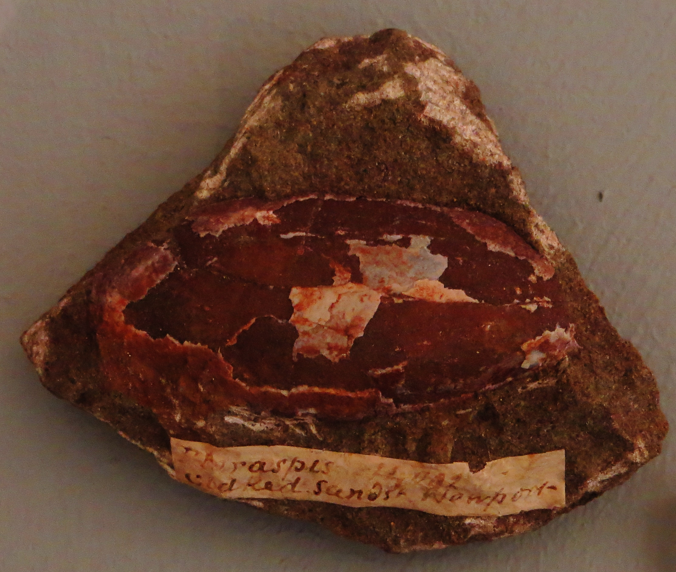 Fossil of Pteraspis, an extinct jawless fish. Took the picture at Museum of Paleontology, Tubingen